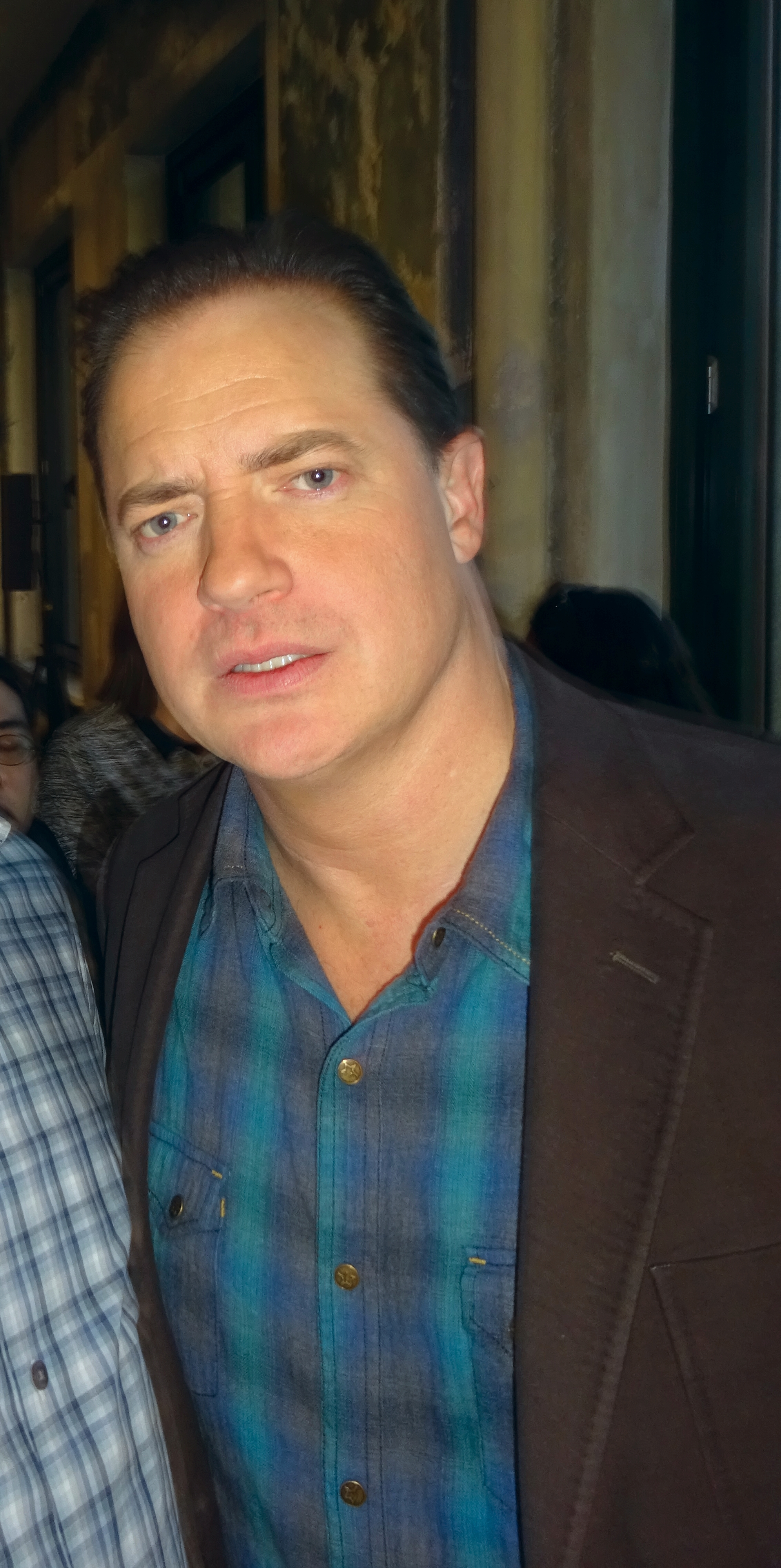 Star of School Ties, Encino Man, Airheads, The Mummy, Bedazzled, The Scout, Doom Patrol and The Quiet American. NYC Dec '16.